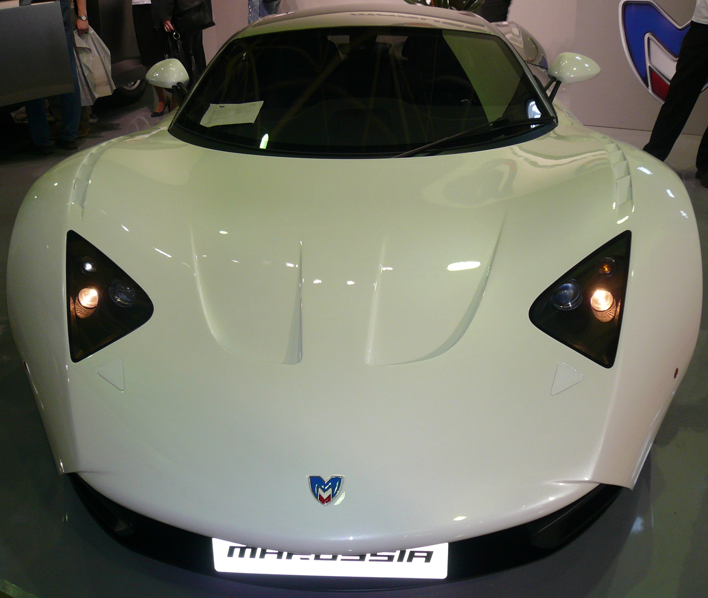 Marussia B1